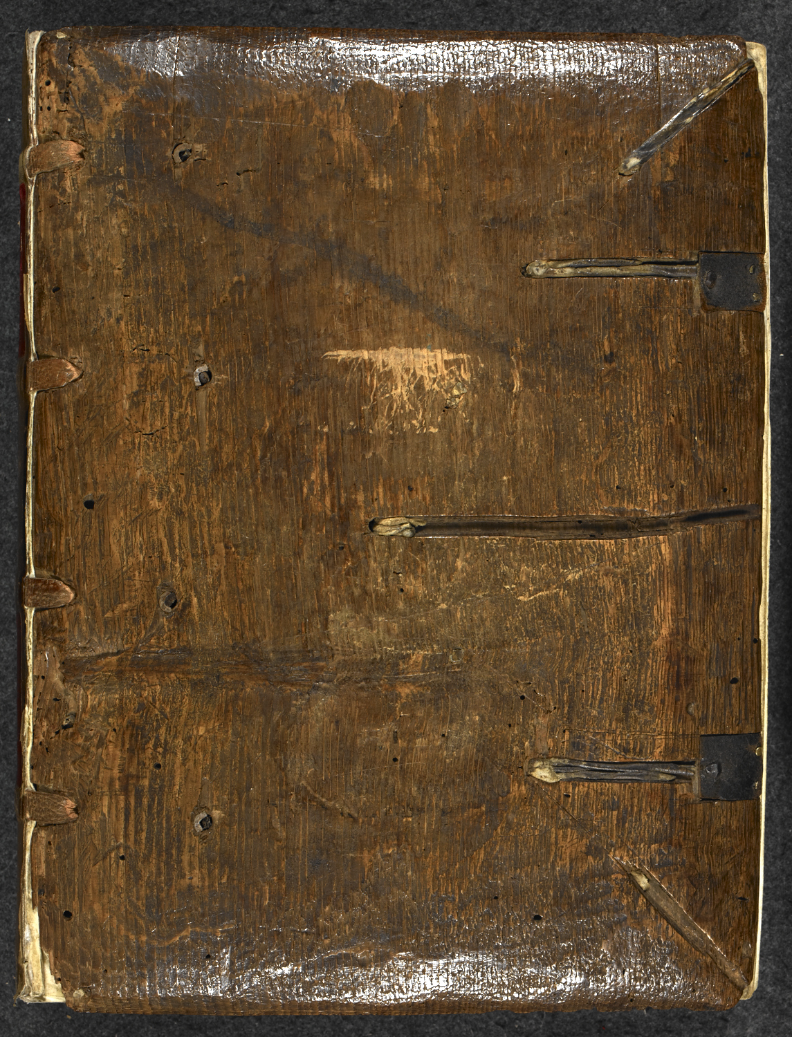 Style: Unspecified; Caption: Upper Cover; Colour: Unspecified; Edge: Unspecified